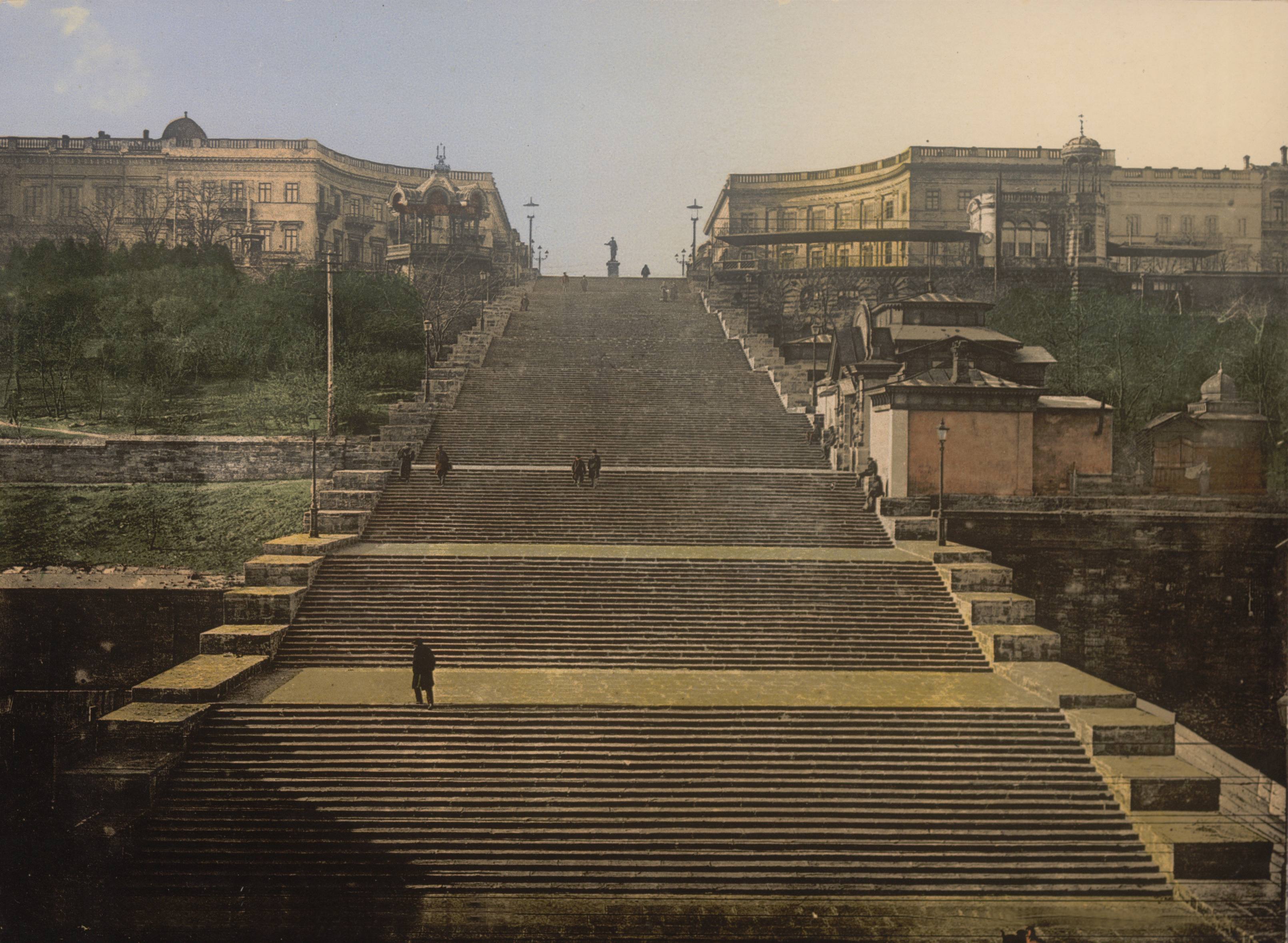 The 142-metre-long (155 yards) Potemkin Stairs in Odessa (1834-41) was made famous by Sergei Eisenstein in his movie Battleship Potemkin (1925). Postcard from between 1890 and 1900. The inscription reads at the bottom: «8935. p.z. - ODESSA. L'ESCALIER RICHELIEU ОДЕССА. РИШЕЛЬЕВСКАЯ ЛЕСТНИЦА» Publised by the Detroit Publishing Company in 1905.